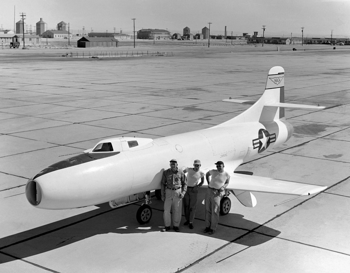 In this NACA Muroc Flight Test Unit photograph taken in 1949, the Douglas D-558-1 is on the ramp at South Base, Edwards Air Force Base. Three members of the ground crew are seen poising against the left wing of the Skystreak. The D-558-1 was designed to be just large enough to hold the J35 turbojet engine, pilot, and instrumentation. The fuselage cross section had to be kept to a minimum. Due to this, the D-558-1 pilots found the cockpit so cramped that they could not easily turn their heads.